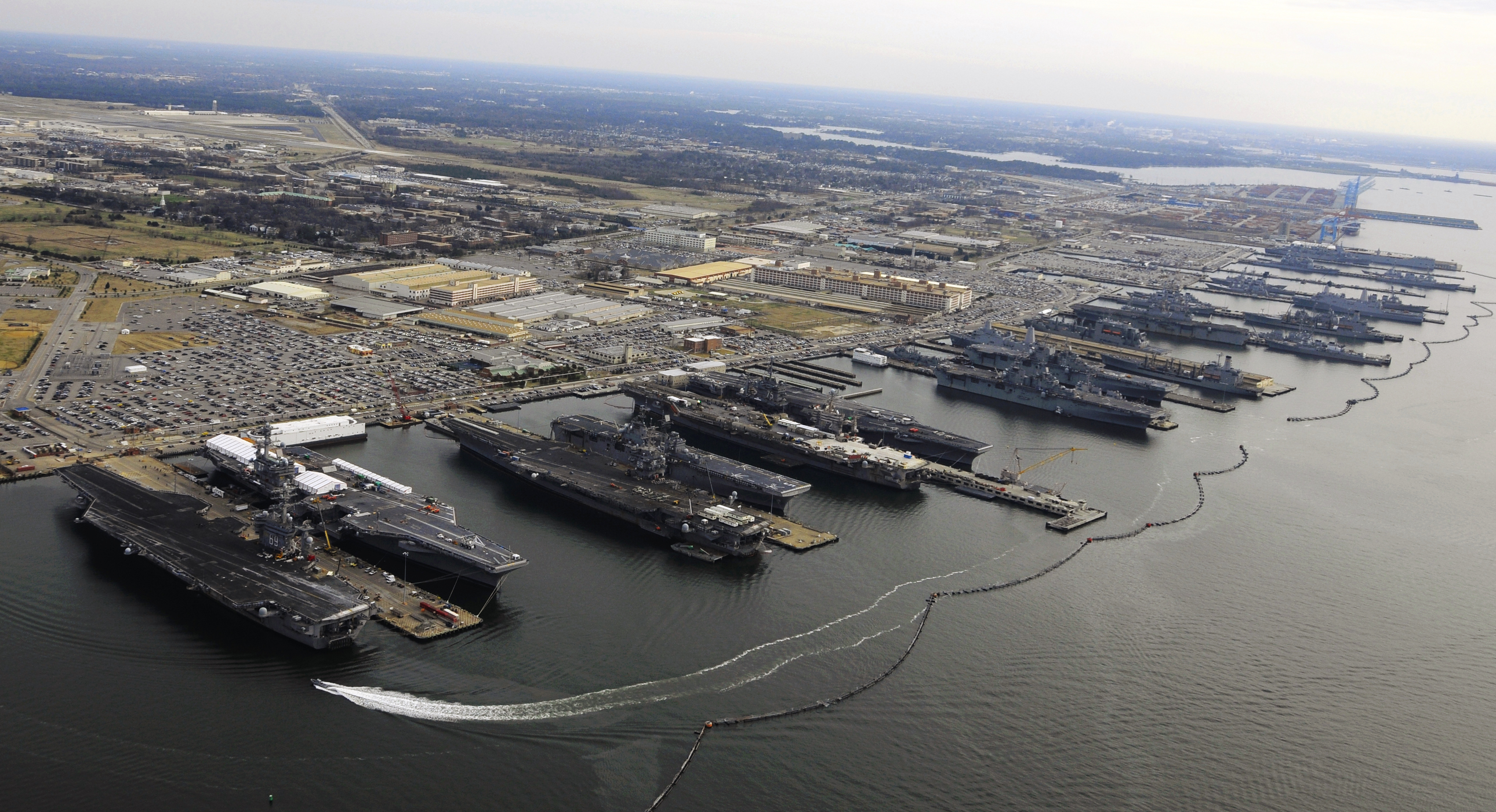 9 Flattops at Norfolk naval base, December 20, 2012 : From bottom to top, front to back: Aircraft carrier DWIGHT D. EISENHOWER (CVN 69) Aircraft carrier GEORGE H. W. BUSH (CVN 77) Aircraft carrier ENTERPRISE (CVN 65) Amphibious assault ship BATAAN (LHD 5) Aircraft carrier ABRAHAM LINCOLN (CVN 72) Aircraft carrier HARRY S TRUMAN (CVN 75) Amphibious assault ship WASP (LHD 1) Amphibious assault ship KEARSARGE (LHD 3) Amphibious landing platform dock NEW YORK (LPD 21) A T-AKE dry cargo ammunition ship Amphibious assault ship IWO JIMA (LHD 7) and various cruisers, destroyers, frigates and submarines of the U.S. Atlantic Fleet.